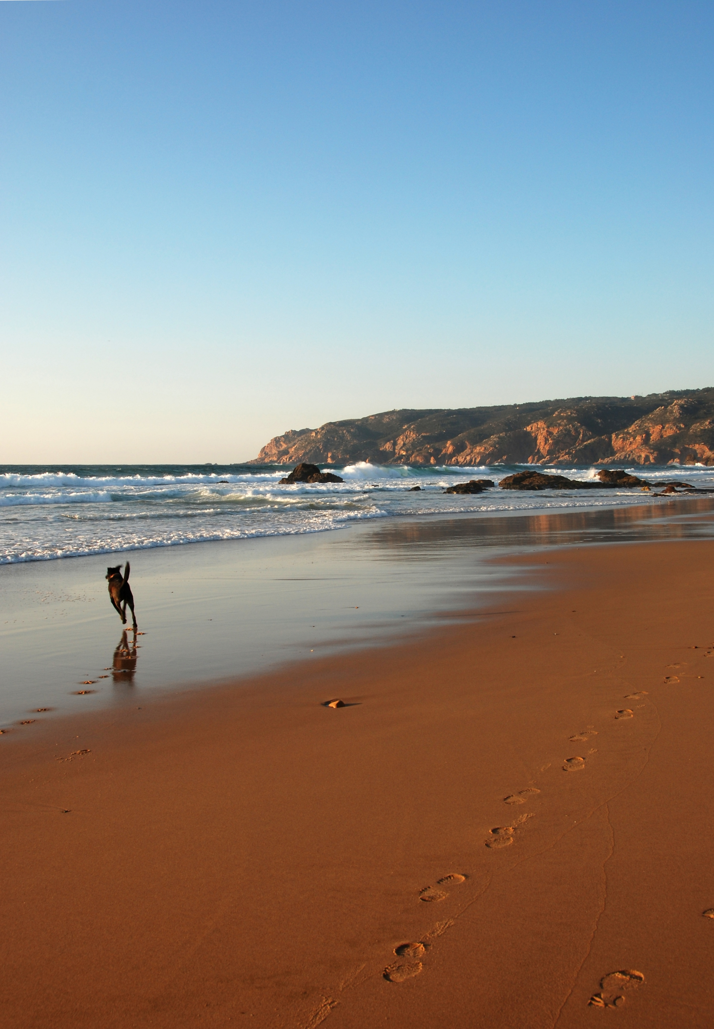 The Cape of Roca, view from the beach of Guincho, Portugal